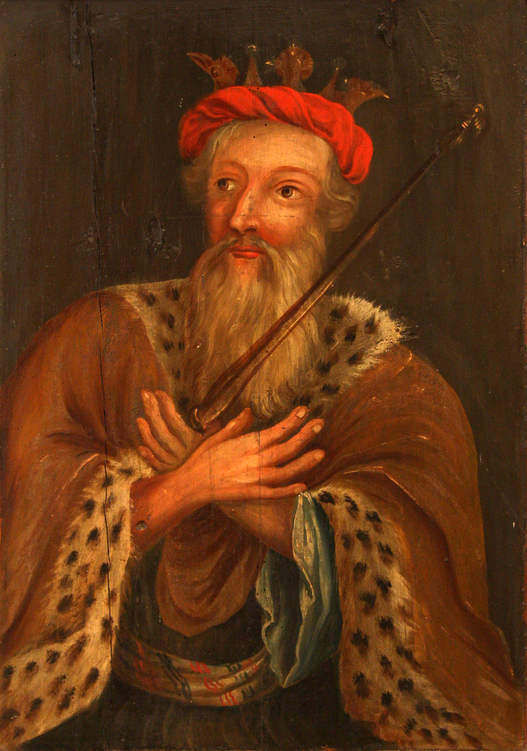 King Manasseh on a 17th century painting by unknown artist in the choir of Sankta Maria kyrka in Åhus, Sweden.